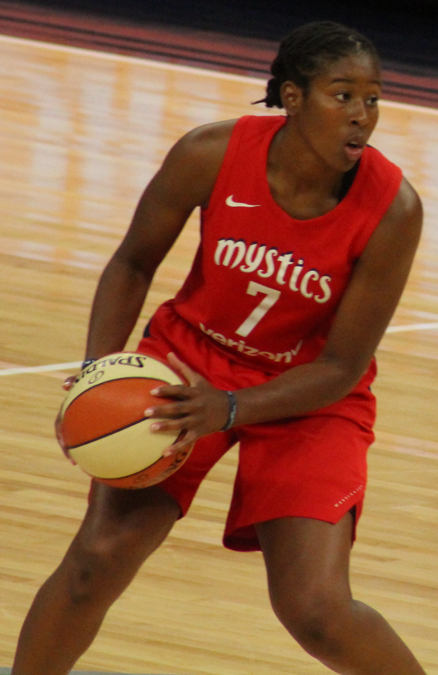 Ariel Atkins of the Washington Mystics